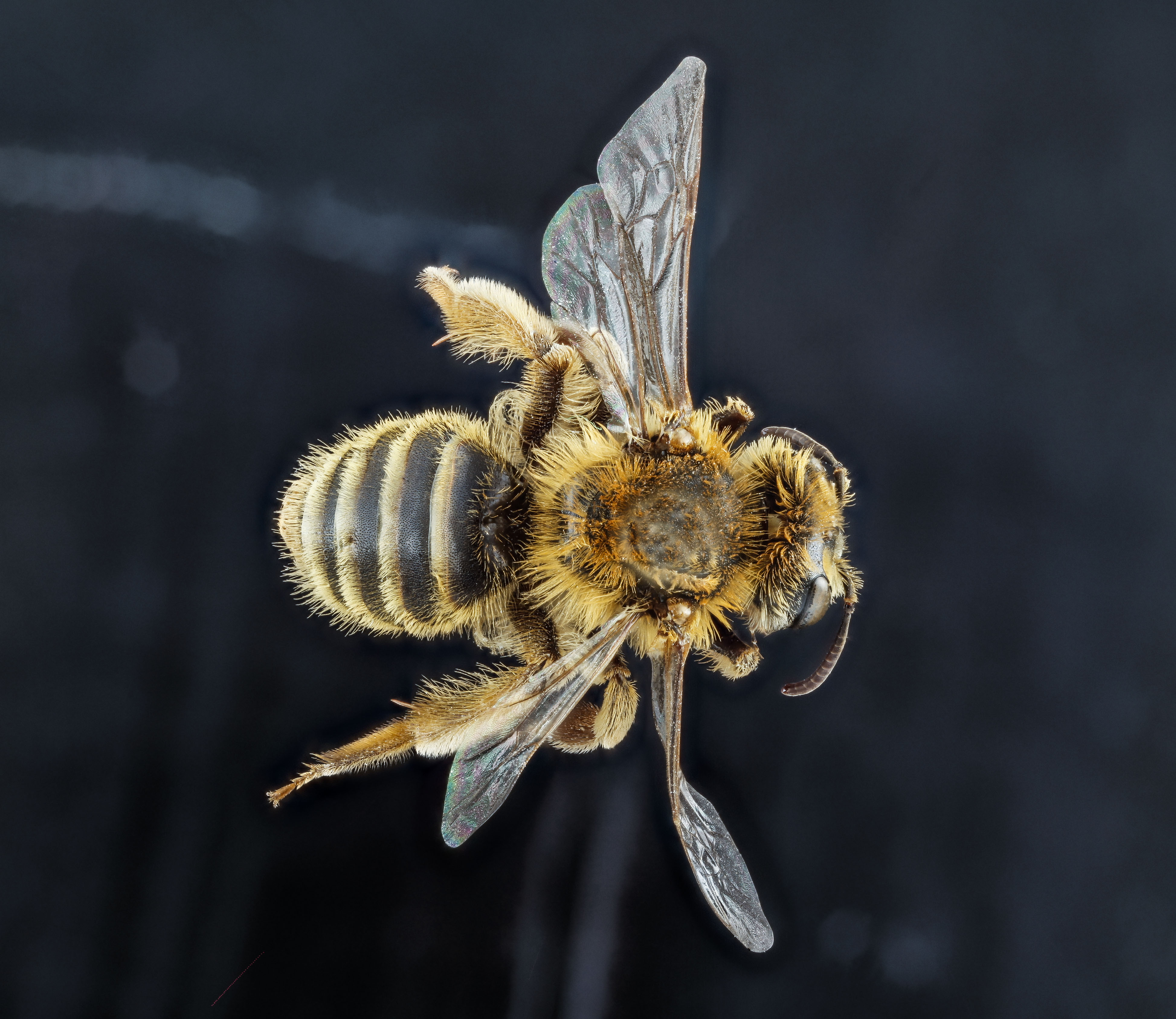 Andrena accepta, female, Badlands National Park, South Dakota